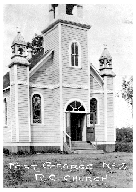 Photographer:Unknown Photo taken:1914 Source:BC Archives #H-0725 [1]